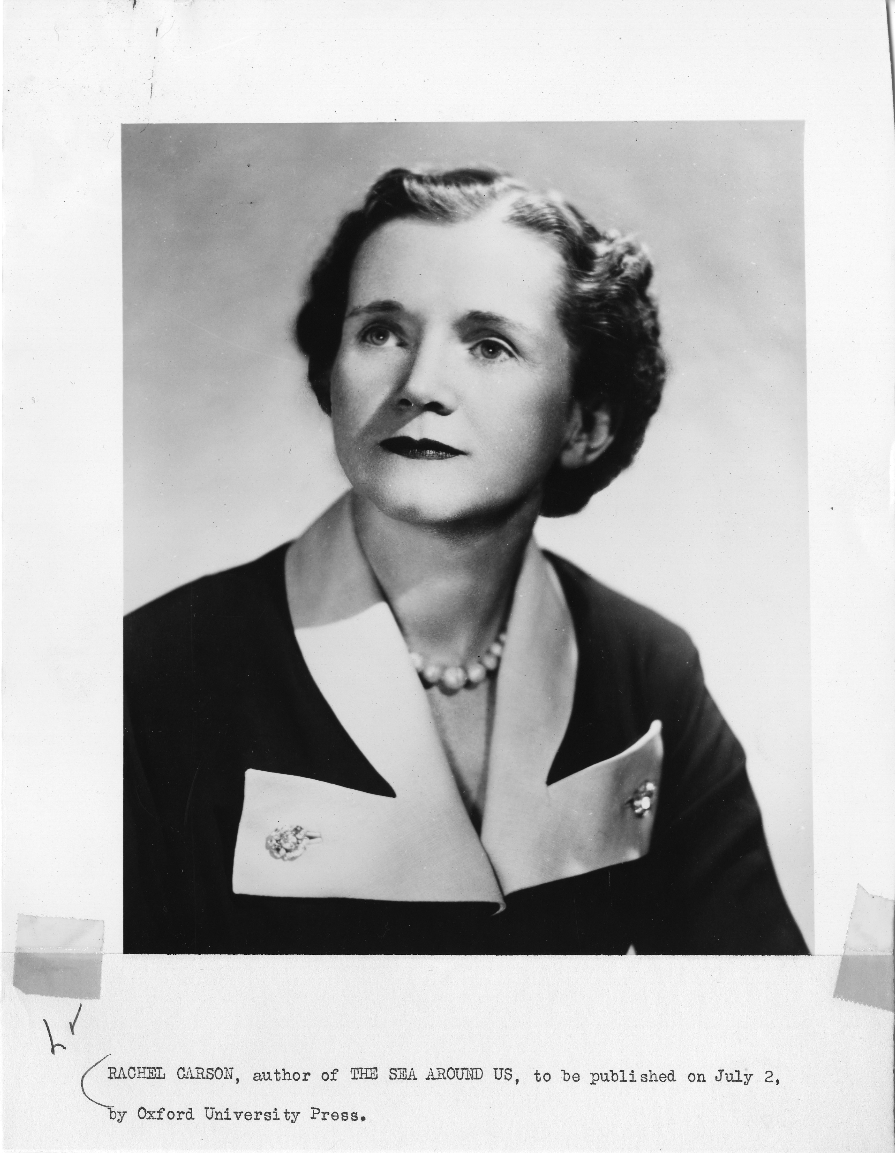 Description: Biologist Rachel Louise Carson (1907-1964) began her career with the U.S. Fish and Wildlife Service but achieved fame and social influence with publication of such popular books as The Sea Around Us (1951) and Silent Spring (1962). Creator/Photographer: Unidentified photographer Medium: Black and white photographic print Persistent URL: [1] Repository: Smithsonian Institution Archives Collection: Science Service Records, 1902-1965 (Record Unit 7091) - Science Service, now the Society for Science & the Public, was a news organization founded in 1921 to promote the dissemination of scientific and technical information. Although initially intended as a news service, Science Service produced an extensive array of news features, radio programs, motion pictures, phonograph records, and demonstration kits and it also engaged in various educational, translation, and research activities. Accession number: SIA2008-0392